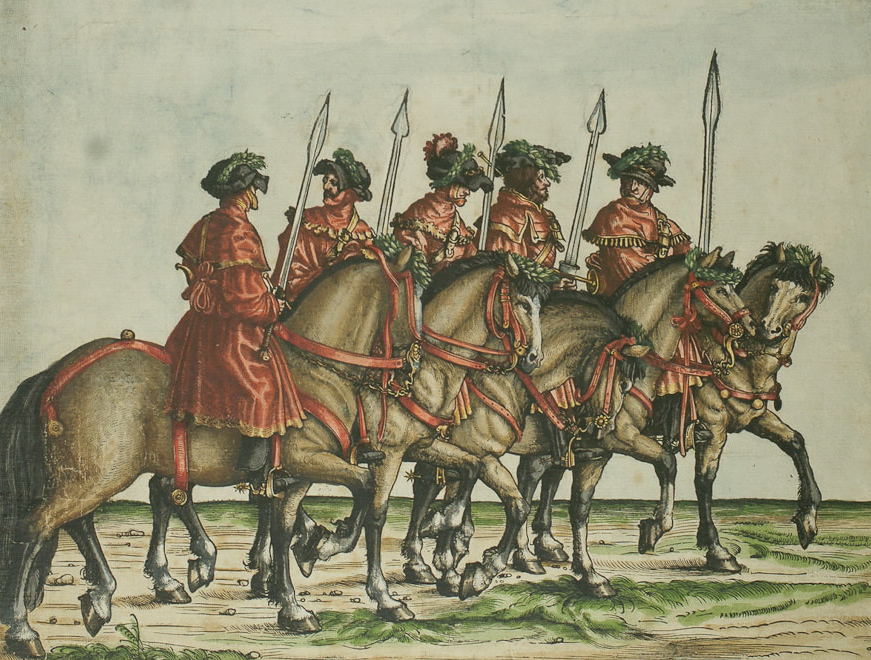 Wild boar hunters with boar swords - detail from the "Triumphal Procession of Maximilian I.", 1526, Graz version